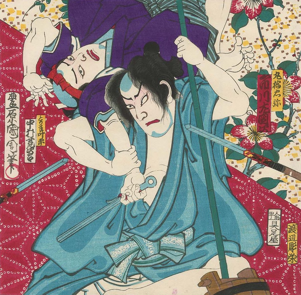 Part of the series 'Actors and Comedy, Comparisons of Hits' (Haiyū rakugo atari kurabe)